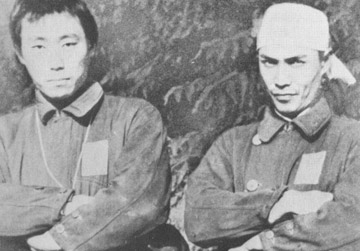 Lieutenant Kamibeppu and Lieutenant Sekio Nishina were co-inventors of the kaiten human torpedo. They both died at the controls of the weapon.